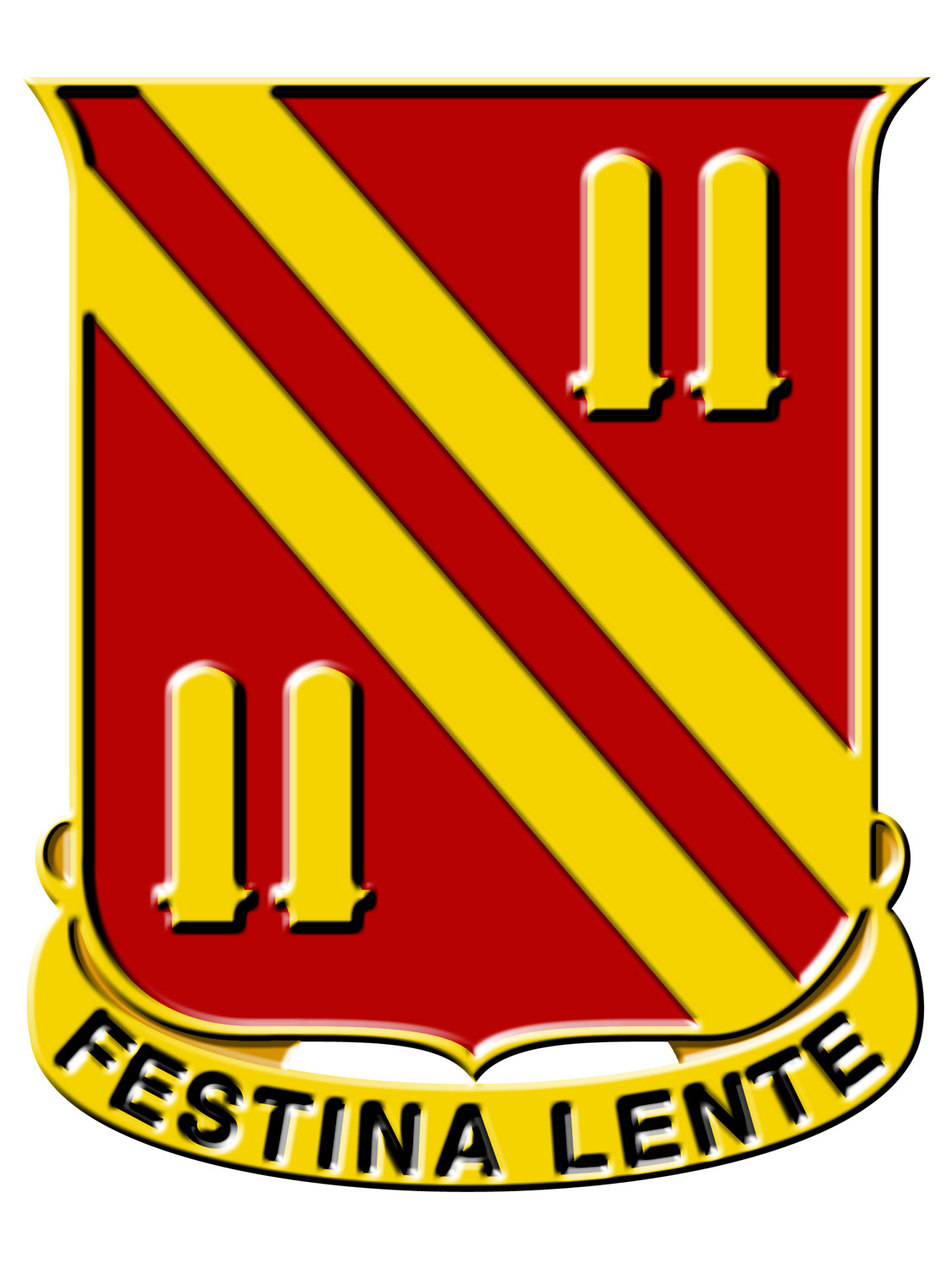 4-42 FA Unit Crest